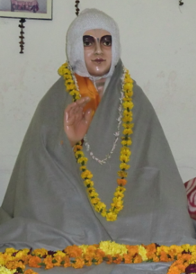 A statue of Jiva Goswami in his samadhi (tomb) temple at Radha-Damodar mandir, Vrindavan (UP), India